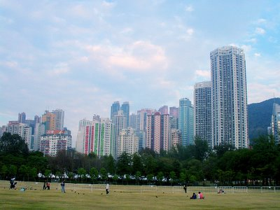 By Tsui Sing Yan Eric (rseric)